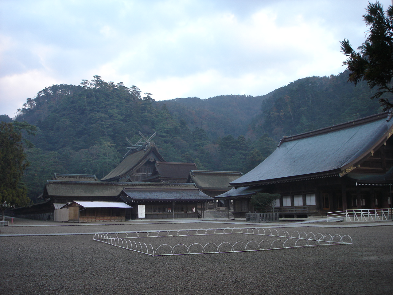 the shrine of Izumo Taisha（出雲大社）